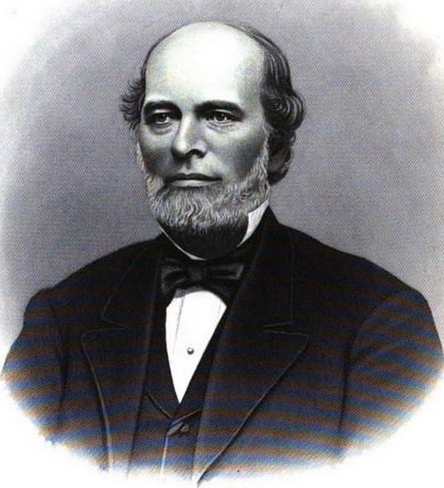 George T. Cobb, New Jersey Congressman